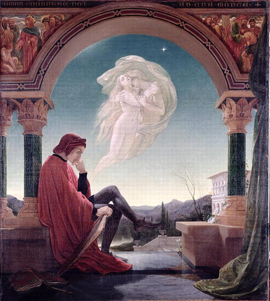 There's a line at the top: "Amor condusse noi ad una morte" (Inferno, V, 106); in H. W. Longfellow translation: "Love has conducted us unto one death".